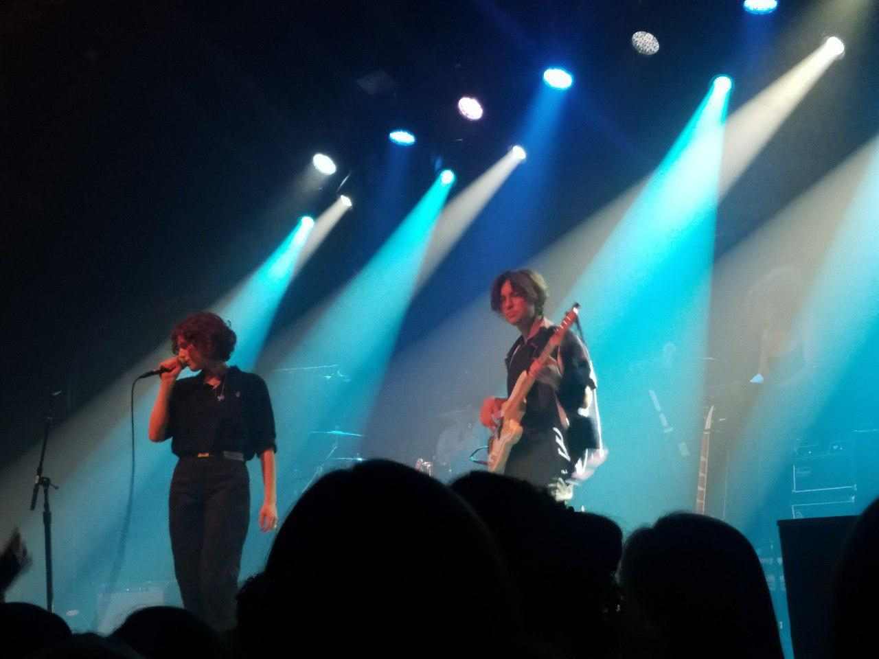 This is a picture of King Princess performing at Royale Boston on January 25, 2019